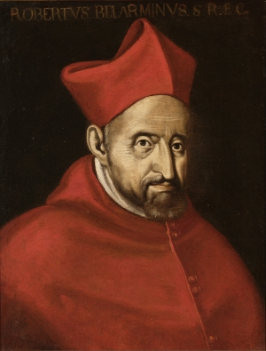 Saint Robert Bellarmine, Jesuit and Doctor of the Church Born 4 October, 1542, Montepulciano, Italy Died 17 September, 1621, Rome, Italy Venerated in Catholicism Beatified 13 May 1923 by Pope Pius XI Canonized 29 June 1930 by Pope Pius XI